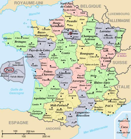 Map of official départements and régions of France, with French titles (in JPEG format for larger, rapid display: 5x faster than SVG).